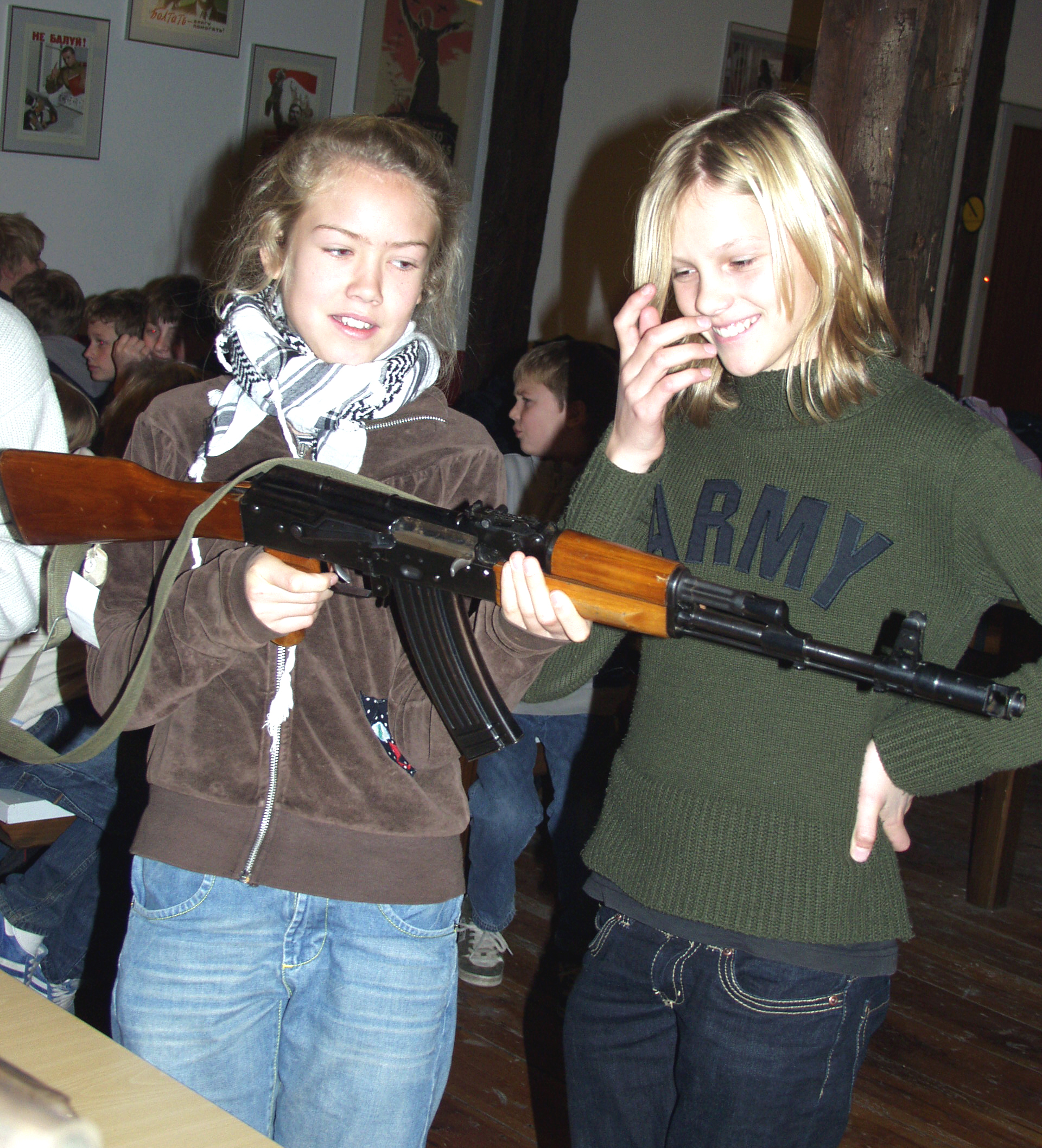 School Children on a guided tour on the Danish National Museum of Military History